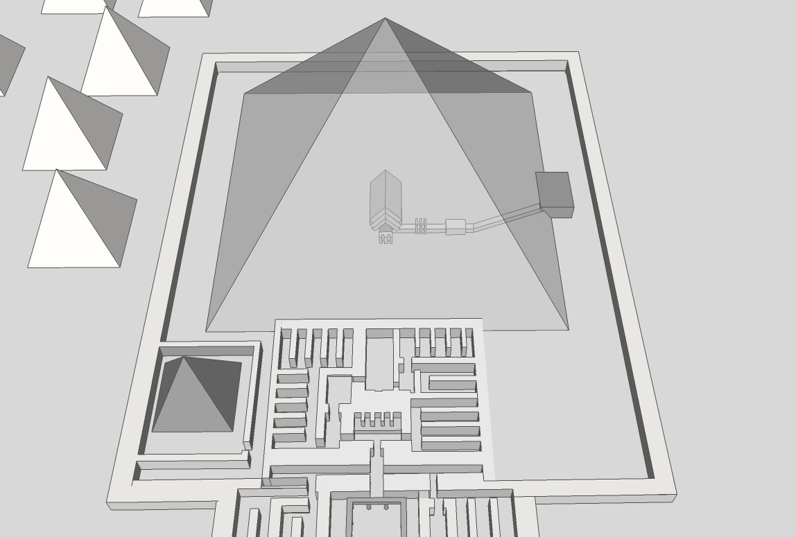 Pyramid of Pepi I taken from a 3d model